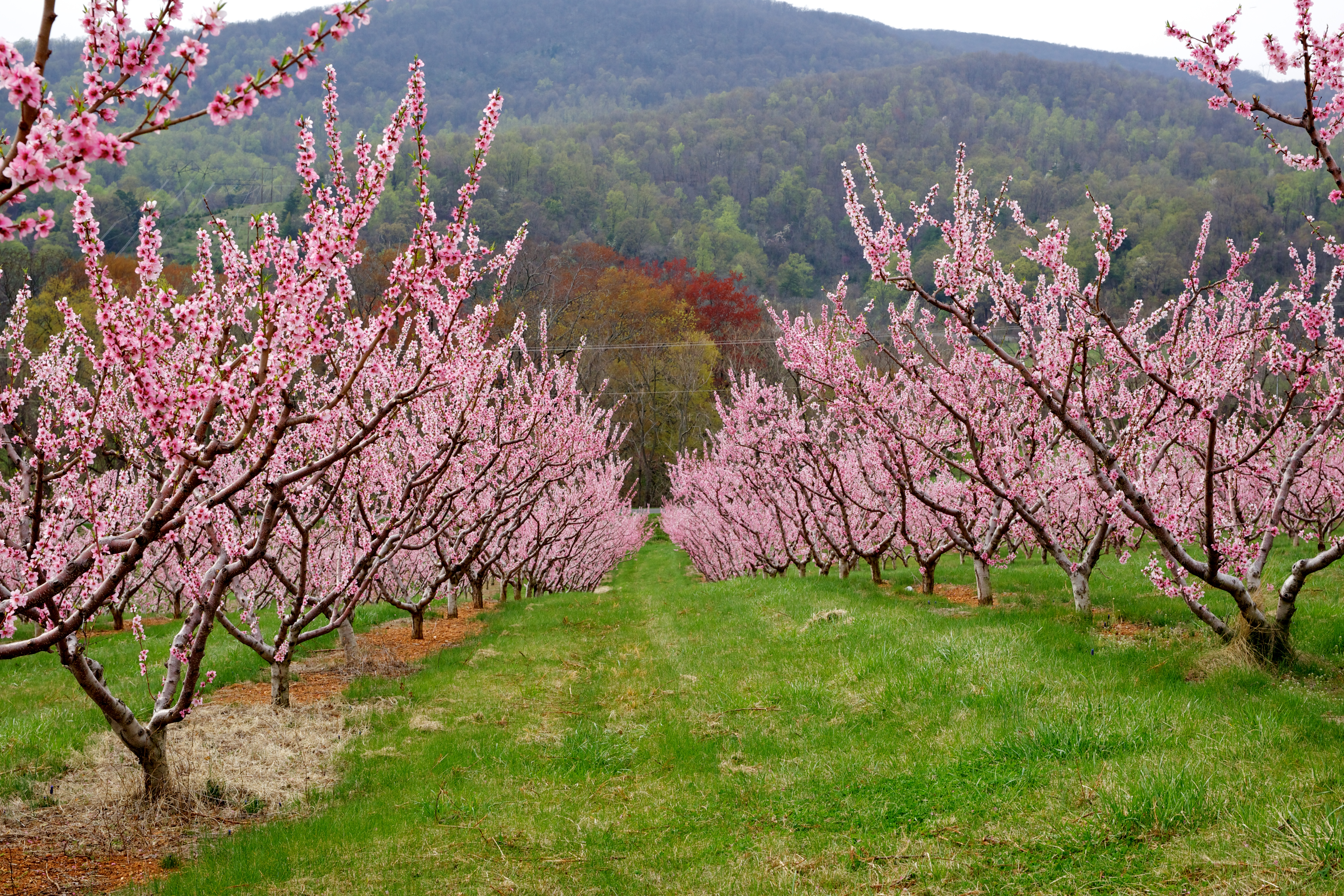 Peach orchard in Virginia, United States. April 2010